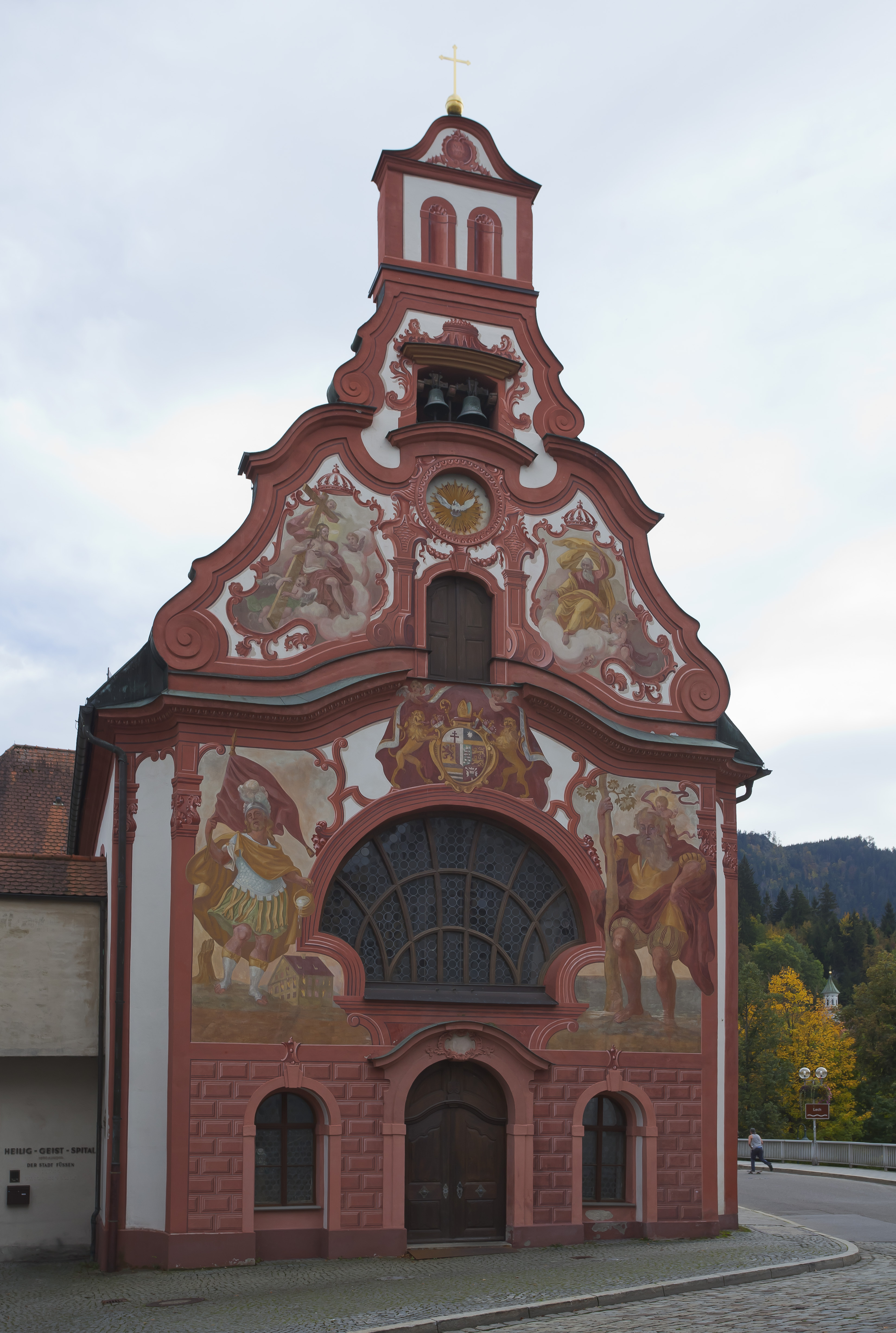 Hospital of the Holy Spirit, Füssen, Germany